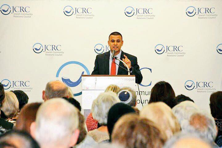 Altaheri speaking at jewish community relations